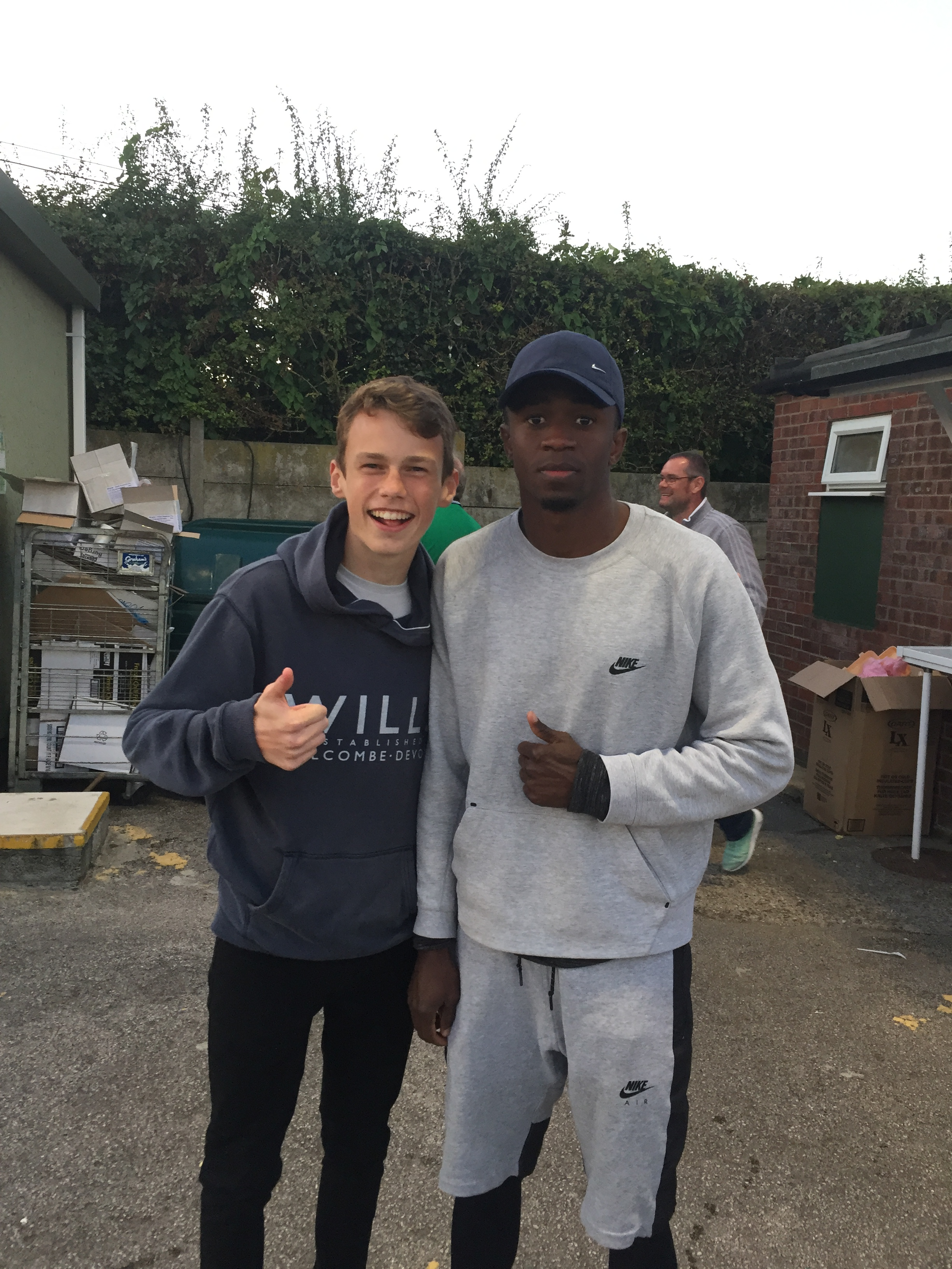 A Picture of Alberto with a big fan